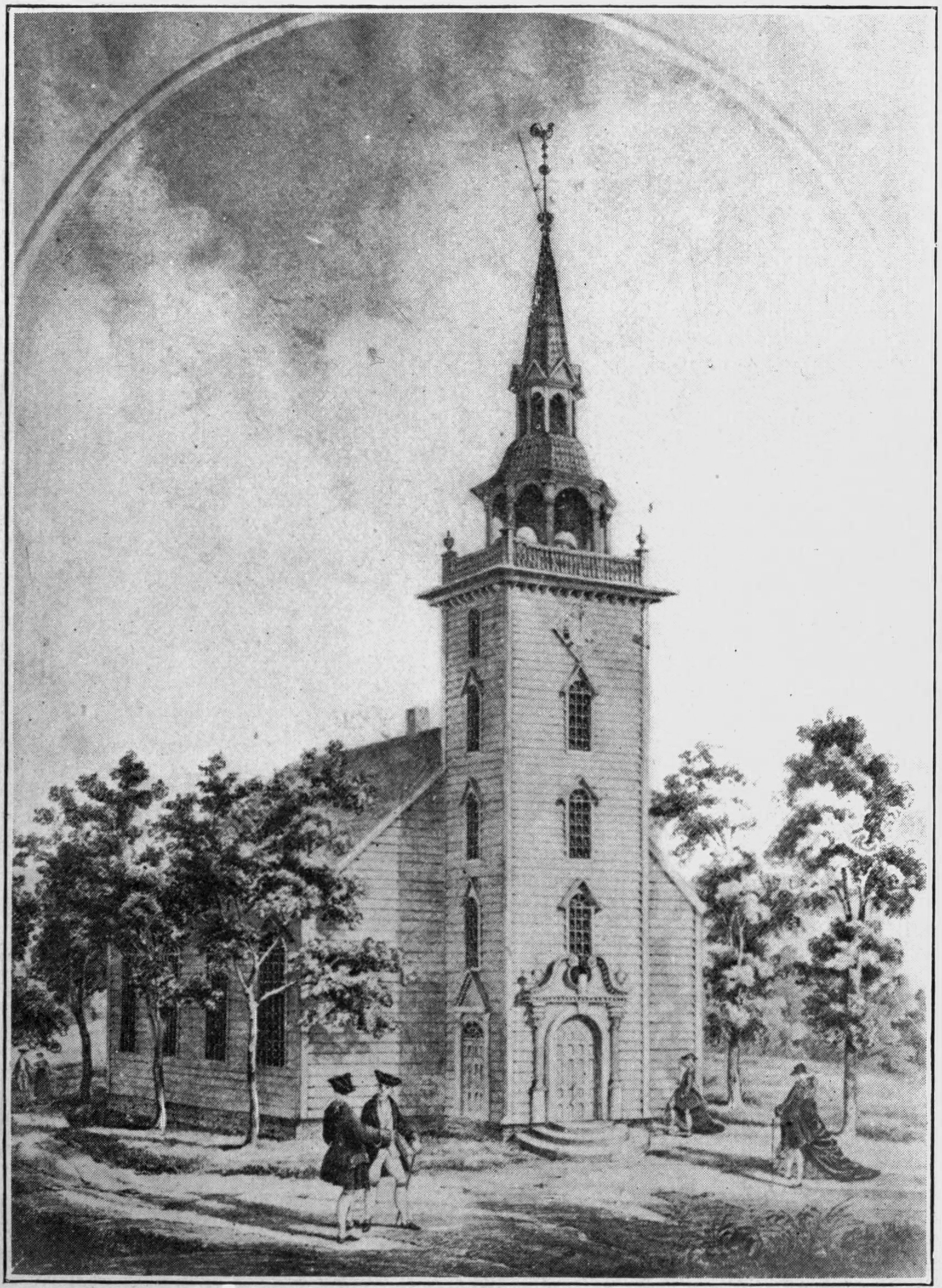 Christ Church, Stratford, Connecticut, USA, second church, built in 1743